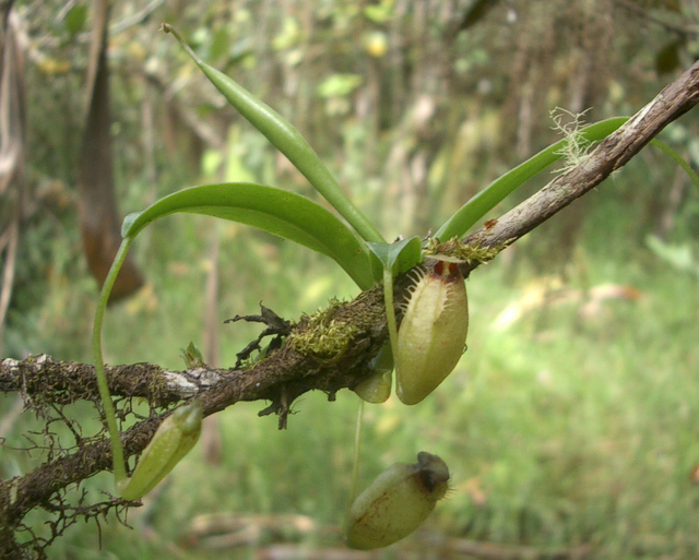 Nepenthes aristolochioides from Jambi, Sumatra (2,100 m asl).